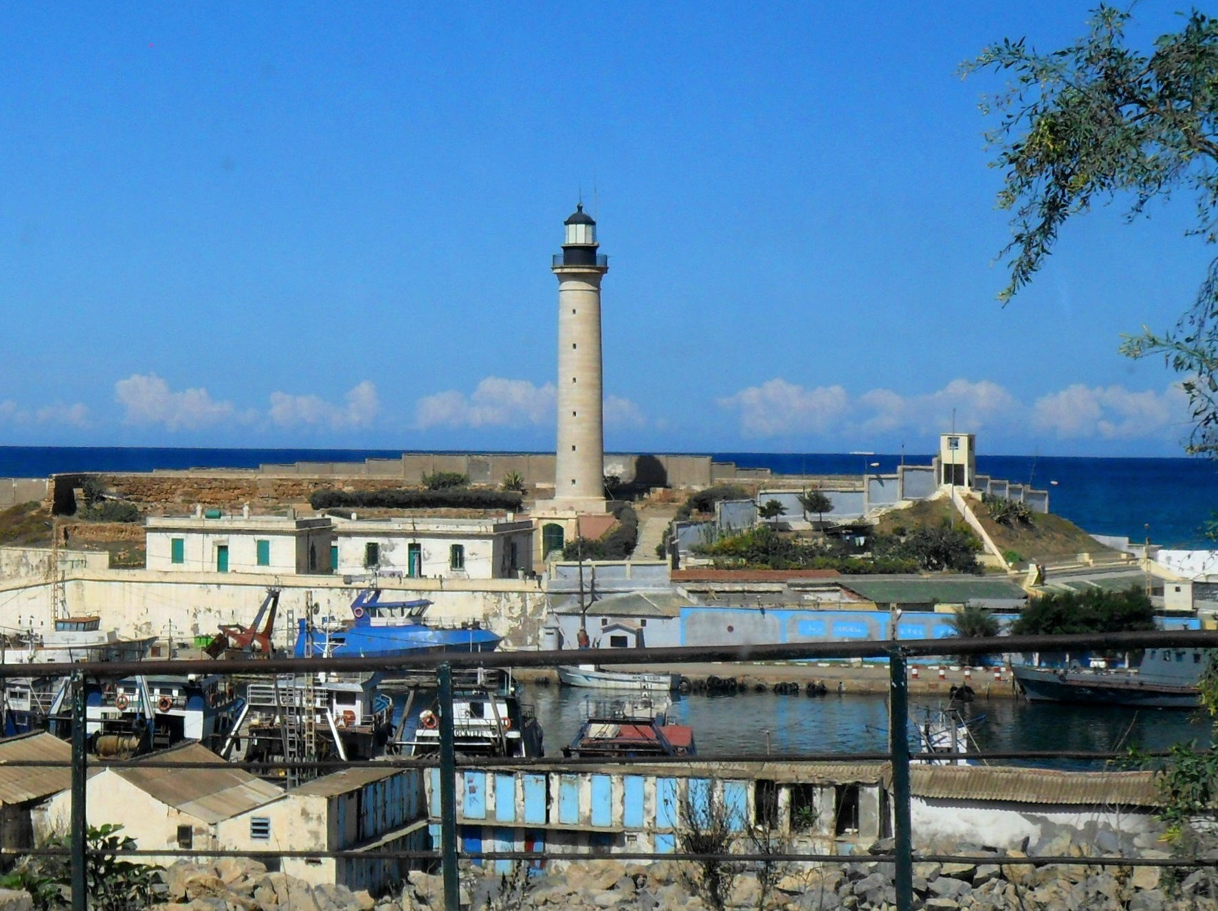 Cherchell 7 شرشال